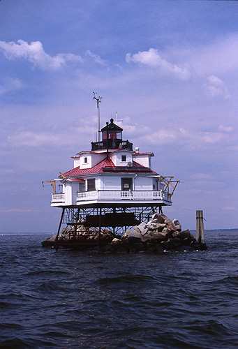 Thomas Point Shoal Lighthouse, Chesapeake Bay, MD